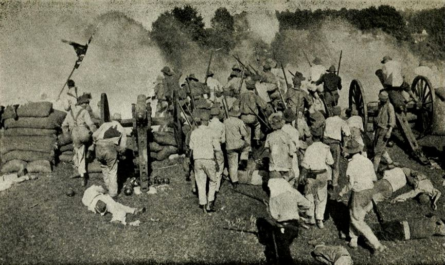 Still from the American Civil War film The Crisis (1916), facing page 91 of the 1916 edition of American novelist Winston Churchill's book. Caption: "Grant kept gnawing away at Vicksburg."